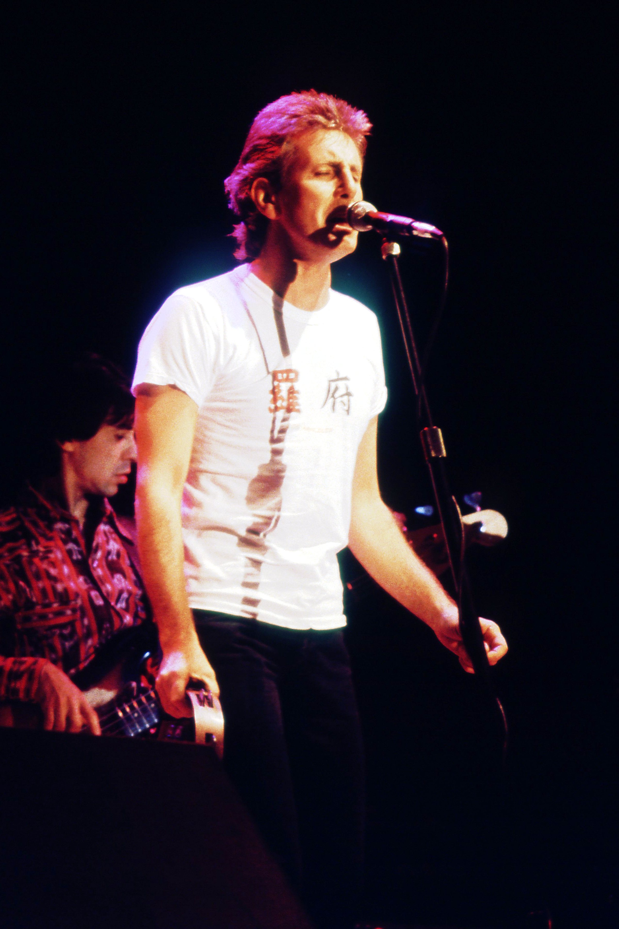 Graham Nash of "Crosby, Stills and Nash" pictured on June 17 1983 during an open-air festival in the "Georg-Melches-Stadion" (a soccer stadium) in Essen, Germany.